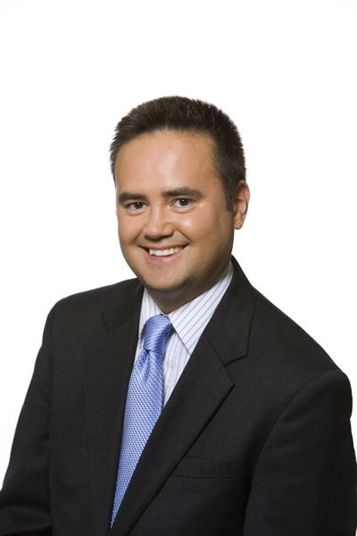 Official photograph of Heritage Foundation Director of Margaret Thatcher Center for Freedom Nile Gardiner